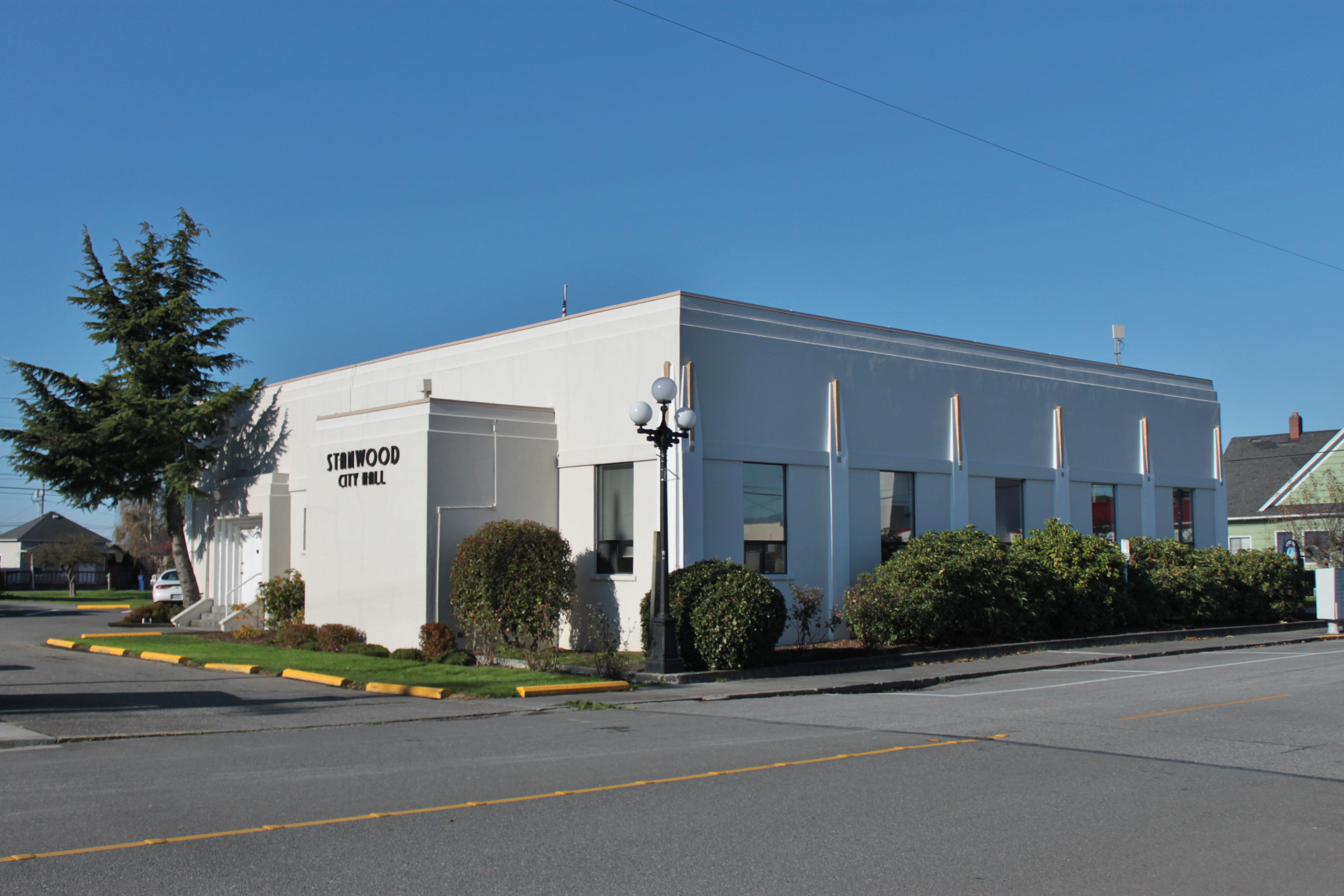 The city hall of Stanwood, constructed in 1939 and planned to be replaced with a new facility.